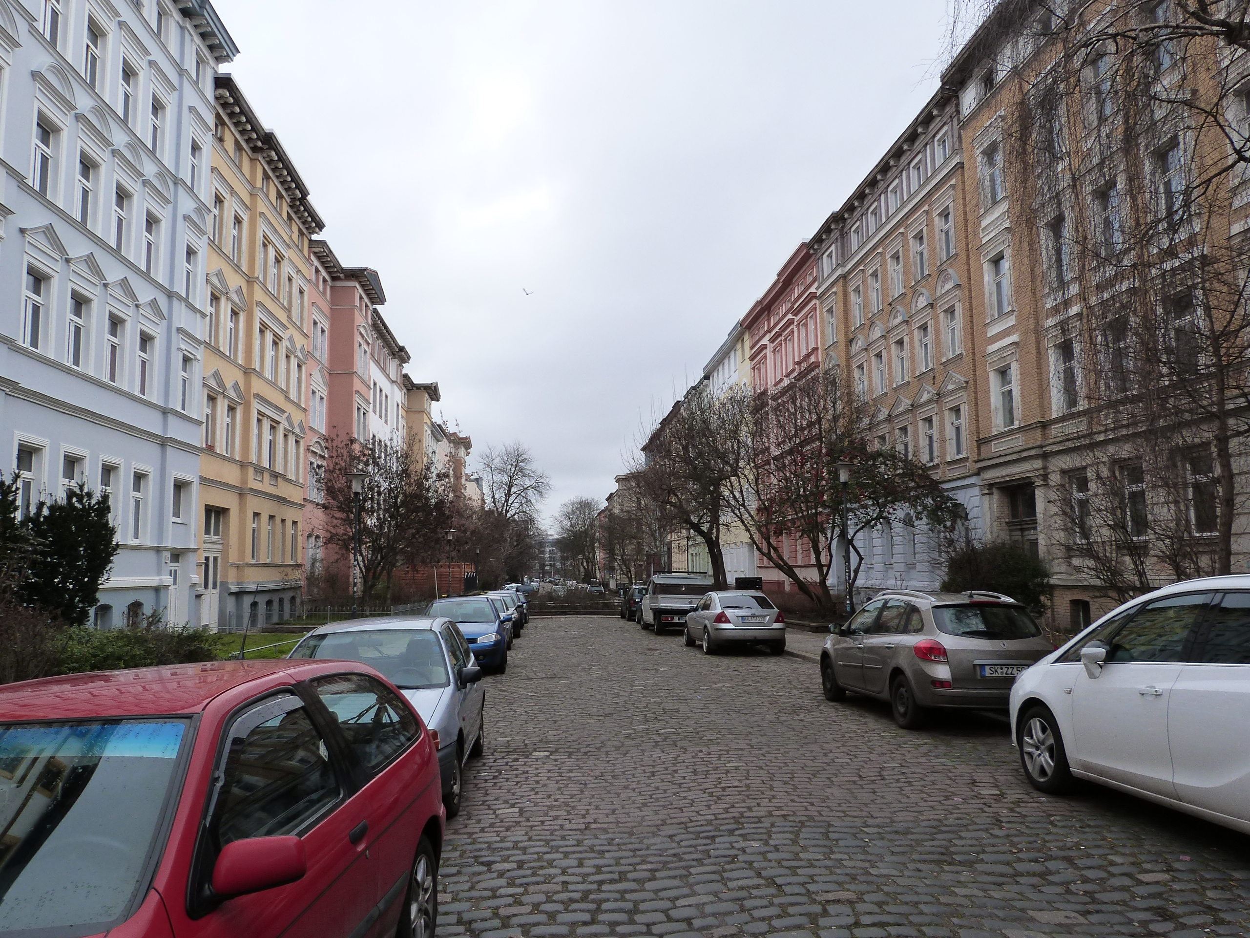 Street Schwetschkestraße, Halle (Saale, eastern part, view to the Street Steinweg